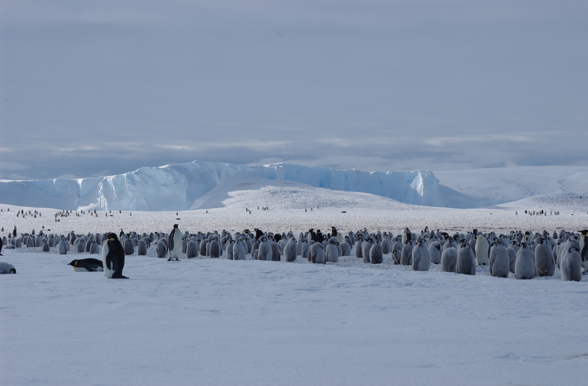 Emperor Penguin, Atka Bay, Weddell Sea, Antarctica